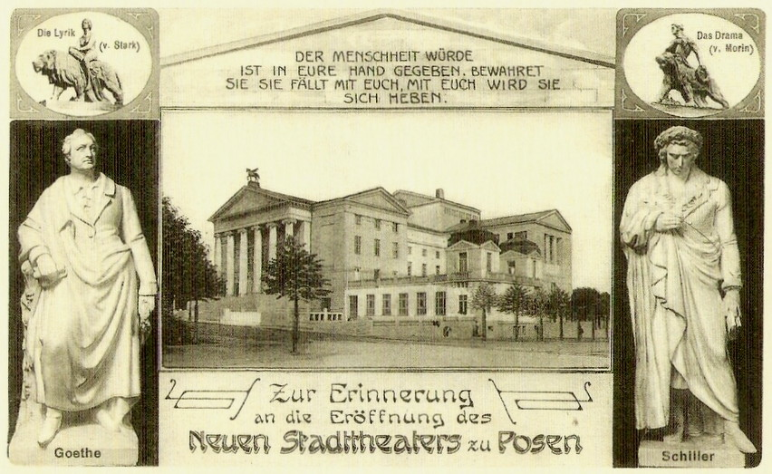 The postcard containg the image of Poznan Opera House (Teatr Wielki w Poznaniu) in Poland, created about 1910.